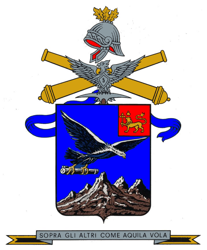 Coat of Arms of the 5º Mountain Artillery Regiment (year 1974); Italian Army.